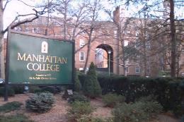 Main entrance to Manhattan College. See also File:Manhattan Coll jeh.JPG.